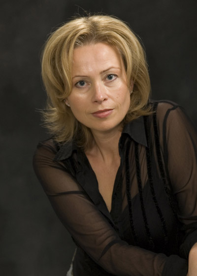 Norwegian author Ingunn_Aamodt